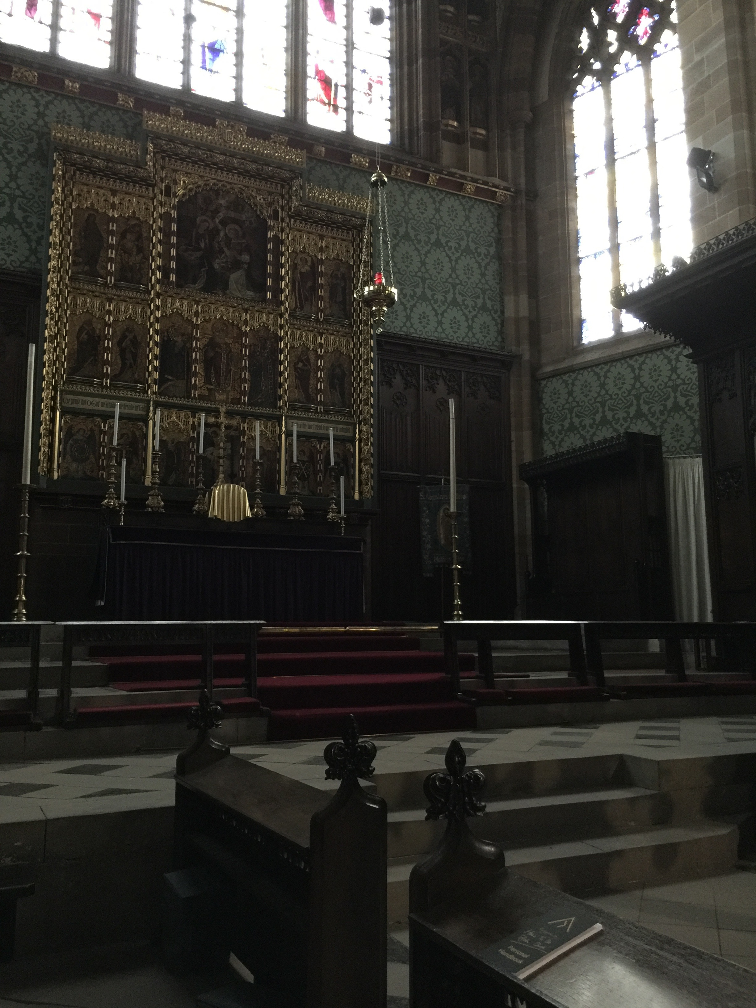 High altar of St Augustine's parish church, Pendlebury, Greater Manchester, seen from the west